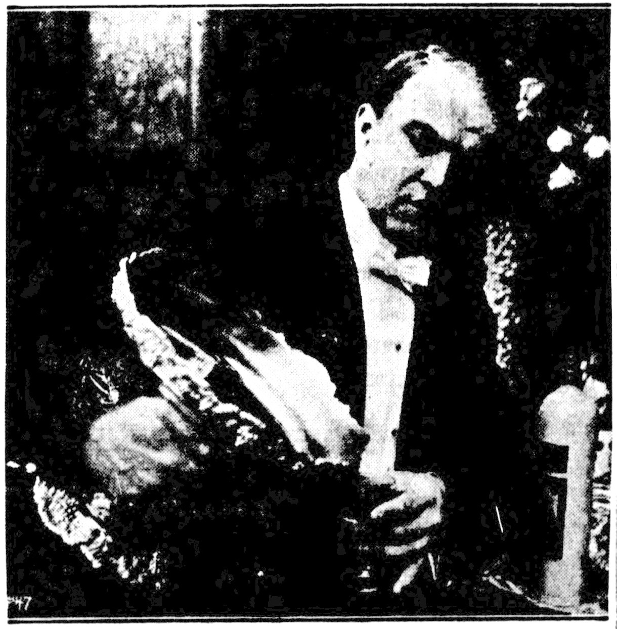 Chimmie Fadden is a 1915 American silent comedy film directed, written and edited Cecil B. DeMille. Scene published in a newspaper.